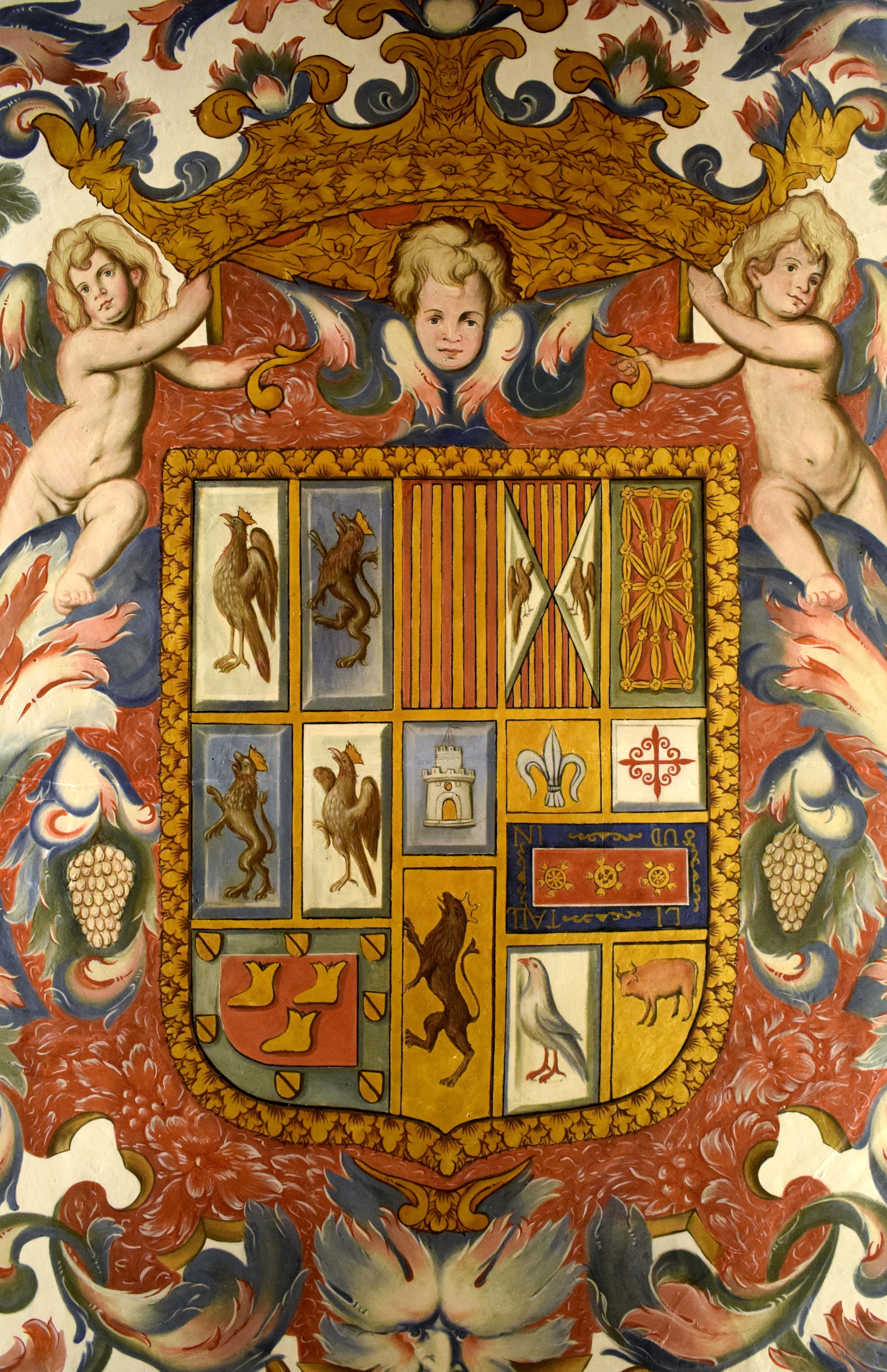 Coat of arms of the Counts of Albaida, as painted in the Milà i Aragó Palace.